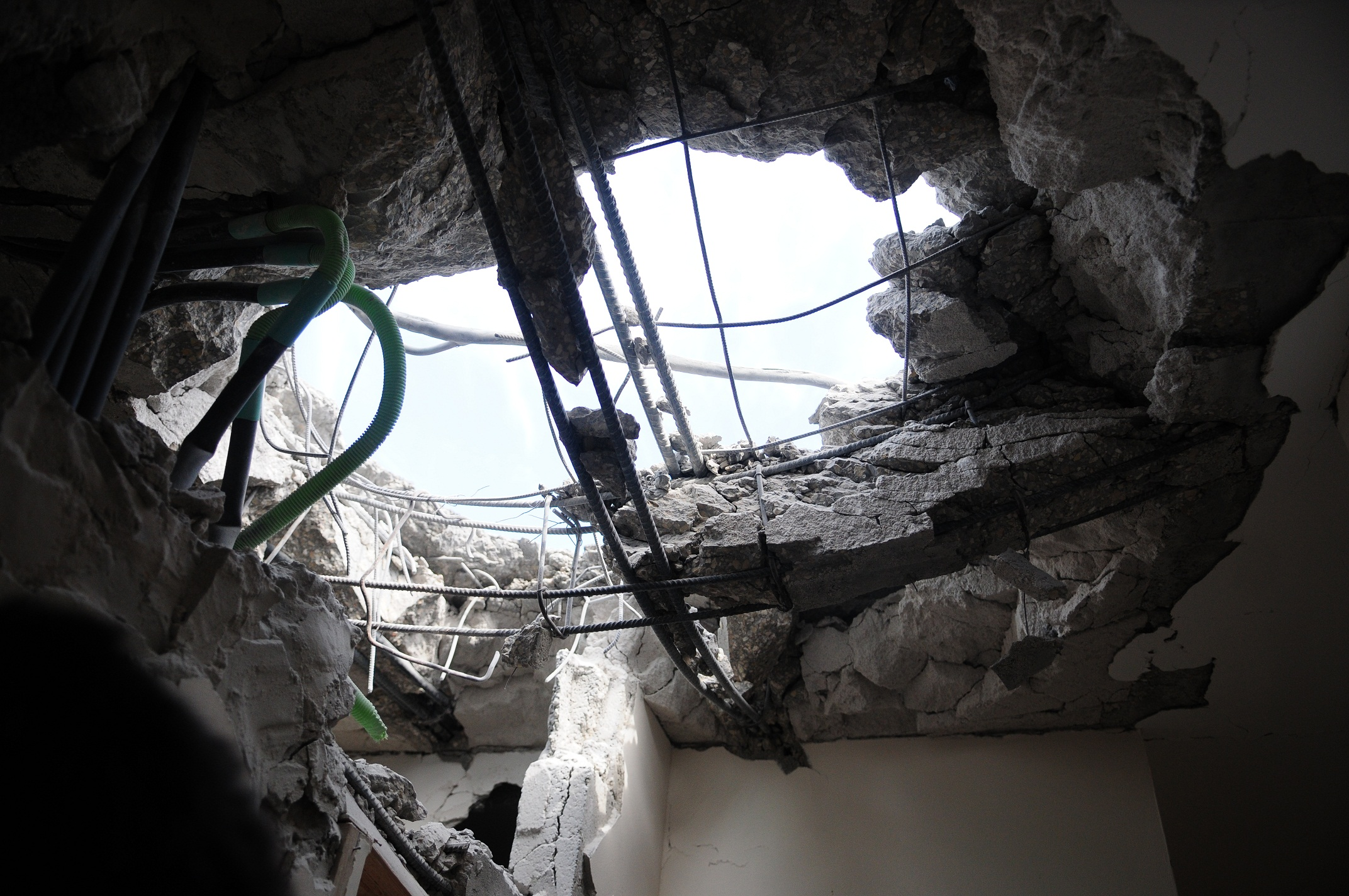 November 18th, Earlier today, a rocket fired from Gaza hit Ashkelon and caused damage to private property. More than 500 rockets hit Israel since the beginning of operation Pillar of Defense. The IDF will not tolerate any threat to Israeli civilians and will continue to respond to terror emanating from Gaza.